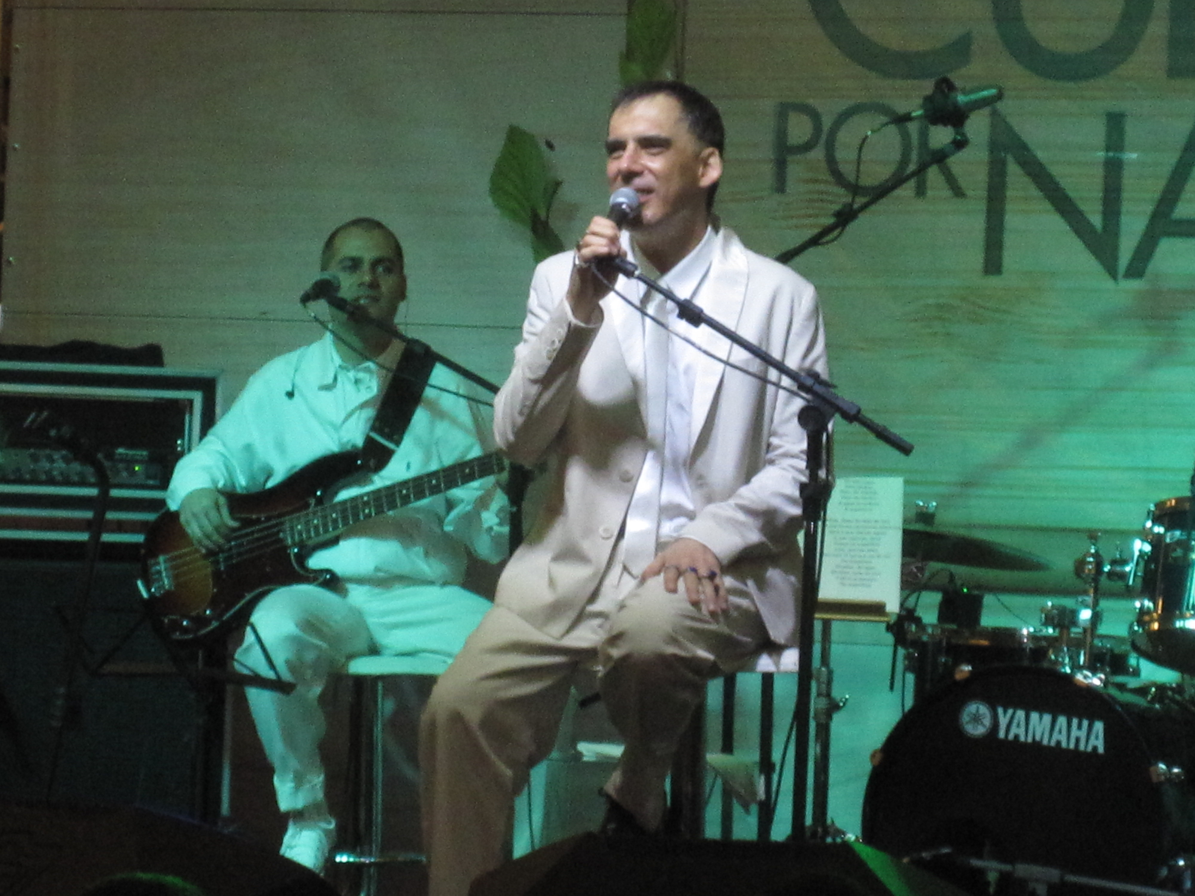 Arnaldo Antunes performing live at the Shopping Granja Vianna in Cotia, São Paulo, Brazil.